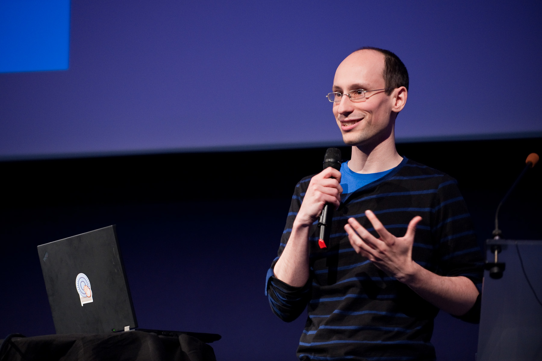 Plugg 2010 Conference in Brussels - Pictures are CC licensed. Use them to talk about Plugg. Plugg 2010 Conference in Brussels - Pictures are CC licensed. Use them to talk about Plugg.